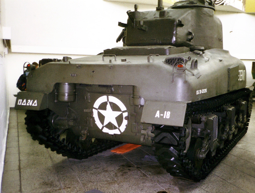 Rear view of a M4 Sherman, on display in the military museum of the german Bundeswehr in Dresden